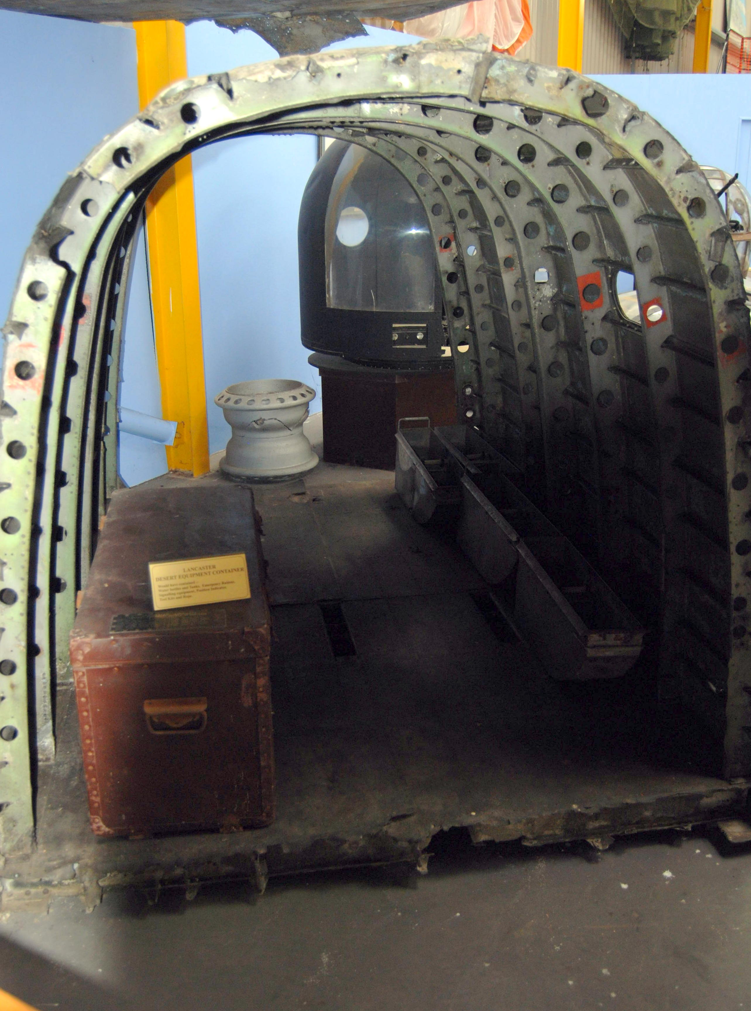 Photo ref; Nikon-D80-2013-DSC_0283 (Edited)